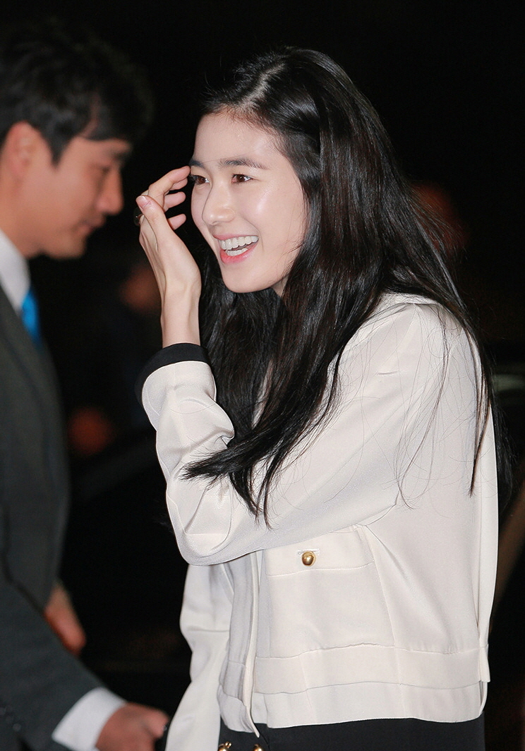 Jung Eun-Chae at the Blue Dragon Film Awards (2013)